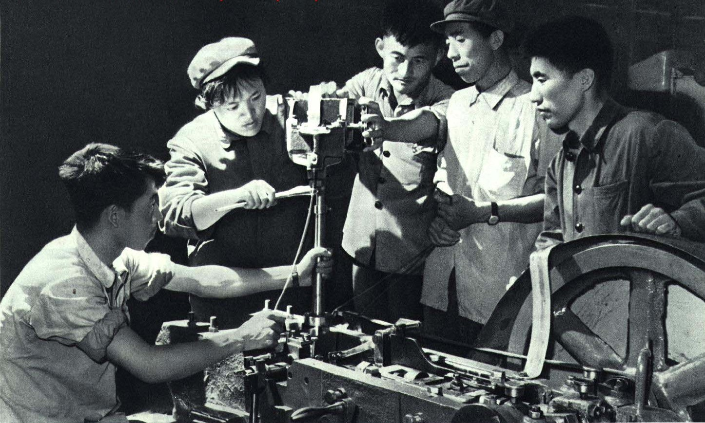 1967-02 1967年尉凤英2